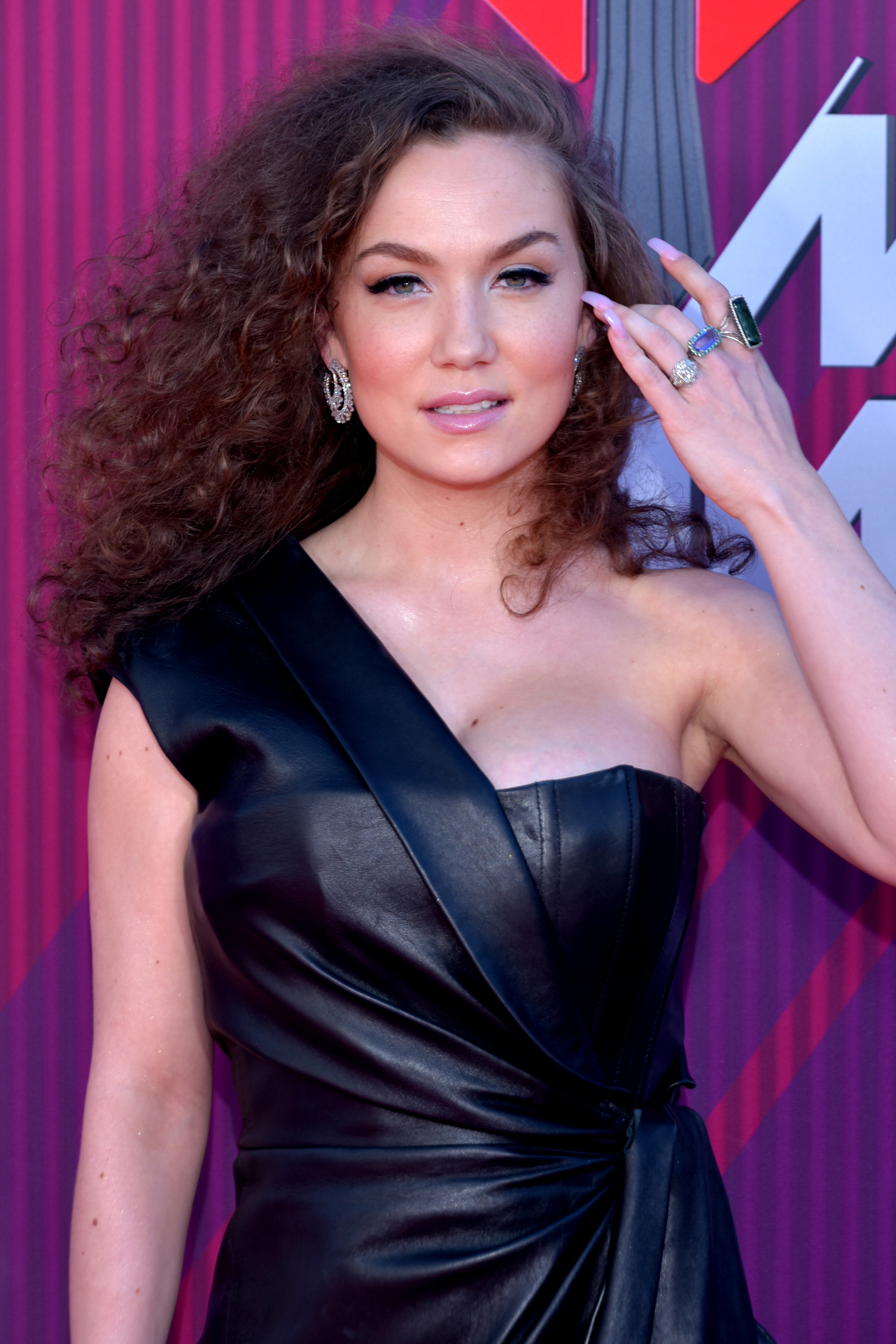 Jude Demorest at the 2019 iHeartRadio Music Awards in Los Angeles California